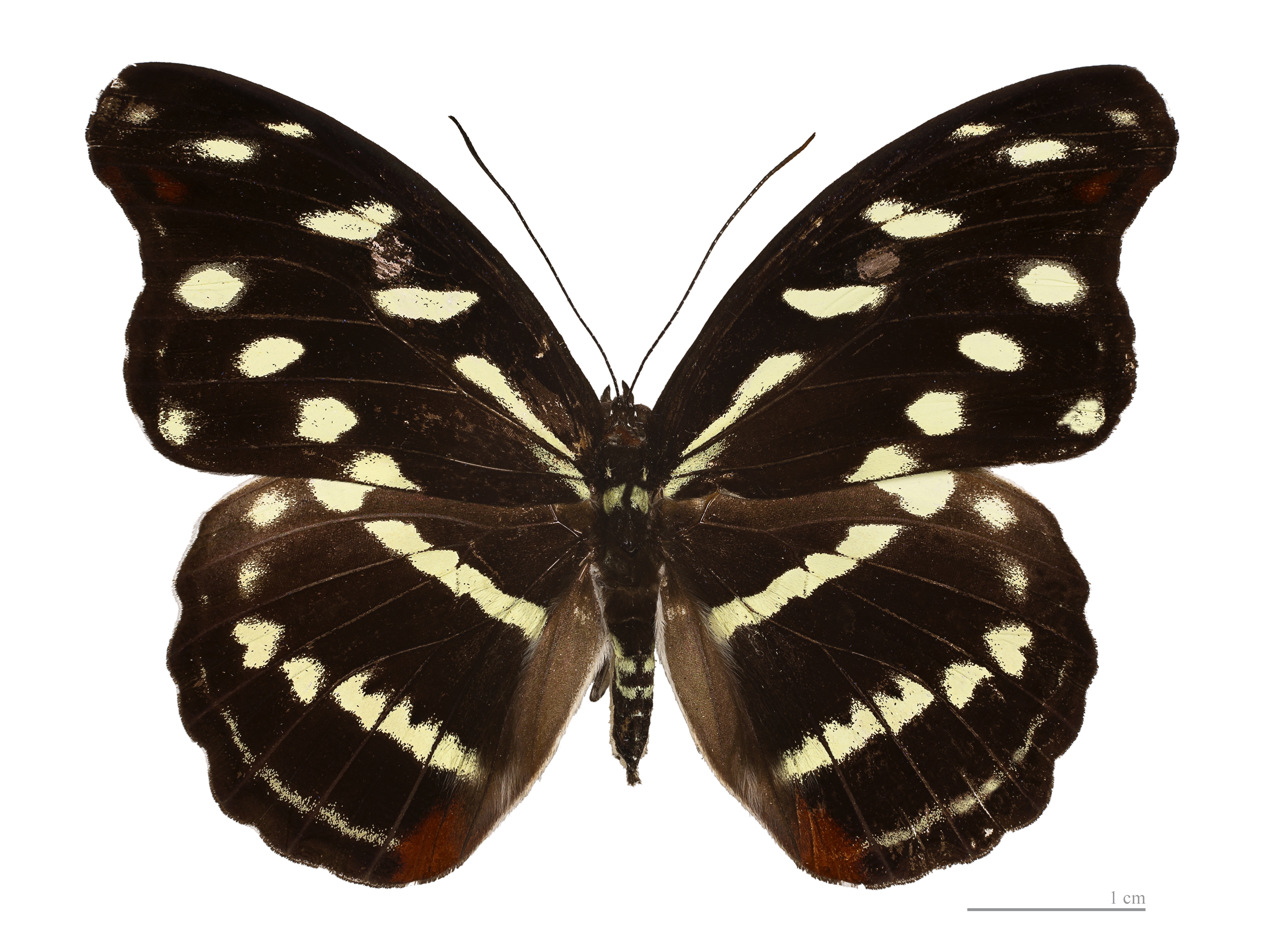 ♀ - Dorsal side Locality: Óbidos, Pará, Brazil